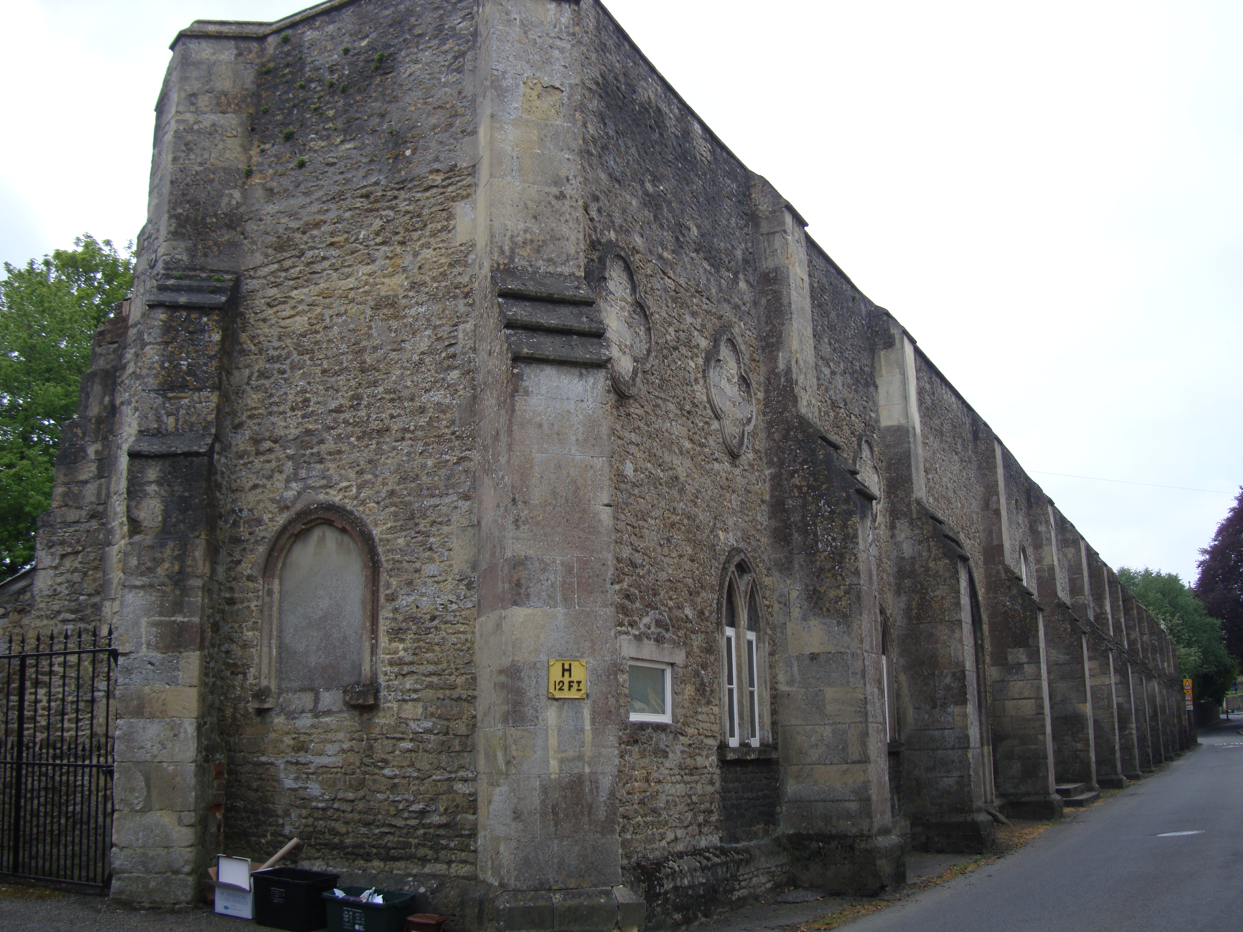 Photograph of the remains of Bruton Abbey, Somerset, England